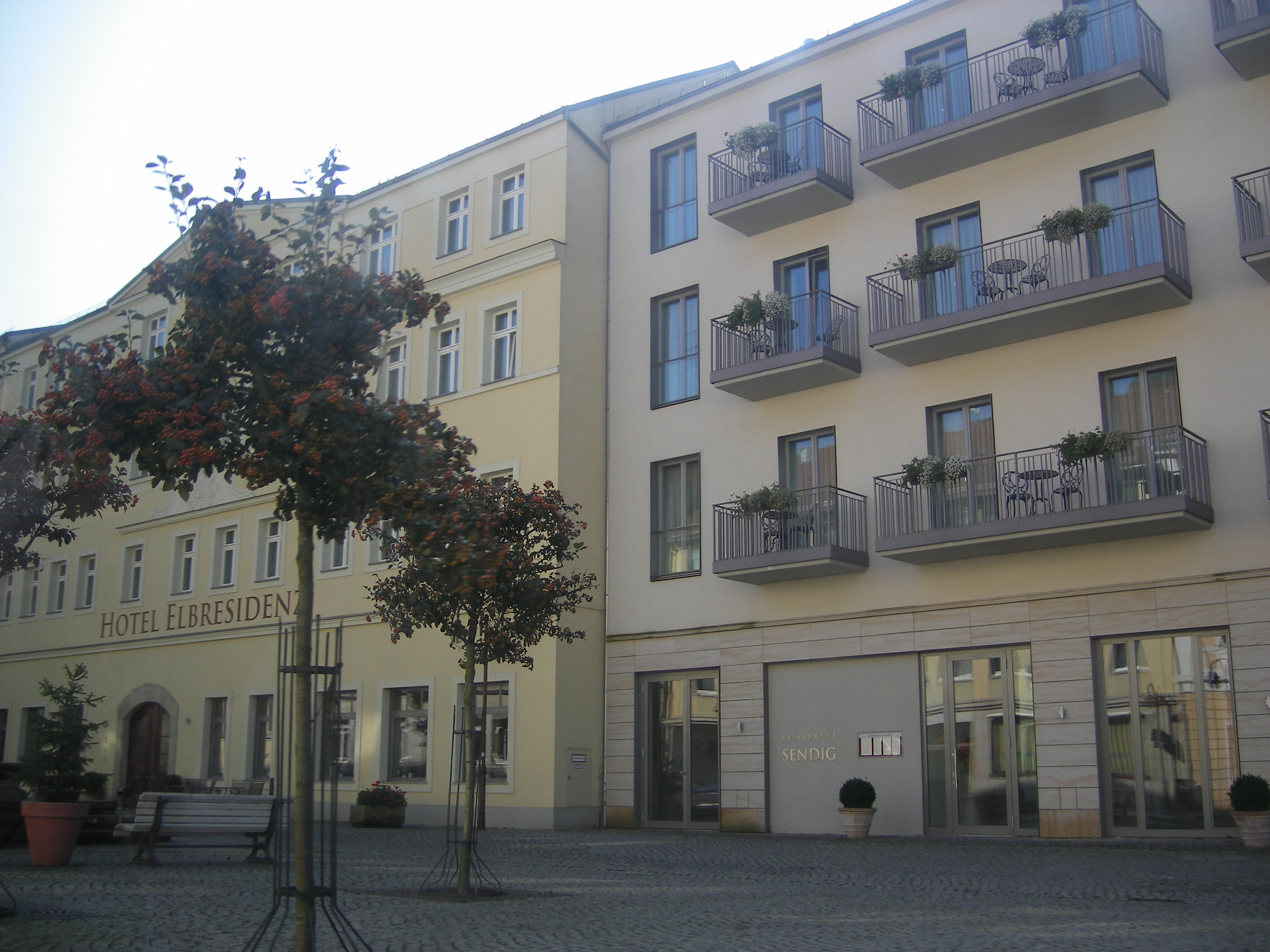 Hotel Elbresidenz in Bad Schandau/Saxony